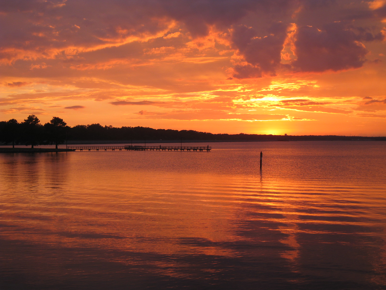 A picture of the sunsetting on the Ross Barnett Reservoir outside of my apartment in Brandon, MS. Also shows the public fishing pier near Spillway Road.